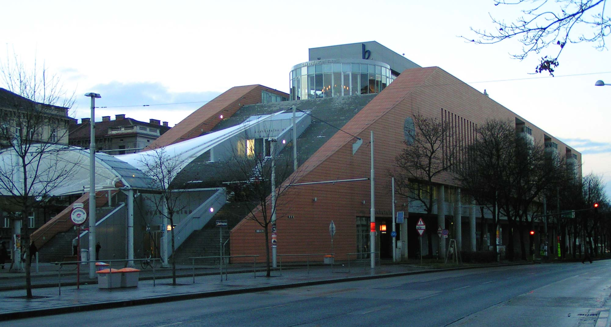 central building of the Viennese library. [Büchereien Wien]. picture taken by ninanuri for wikipedia in November 2005.